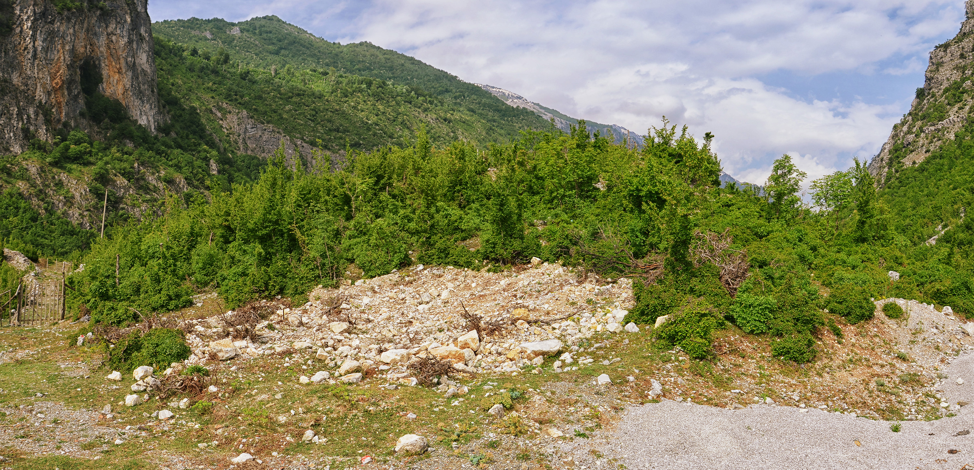 The hill near Shoshan, Tropojë, Albania on top of which the ancient fortification once stood